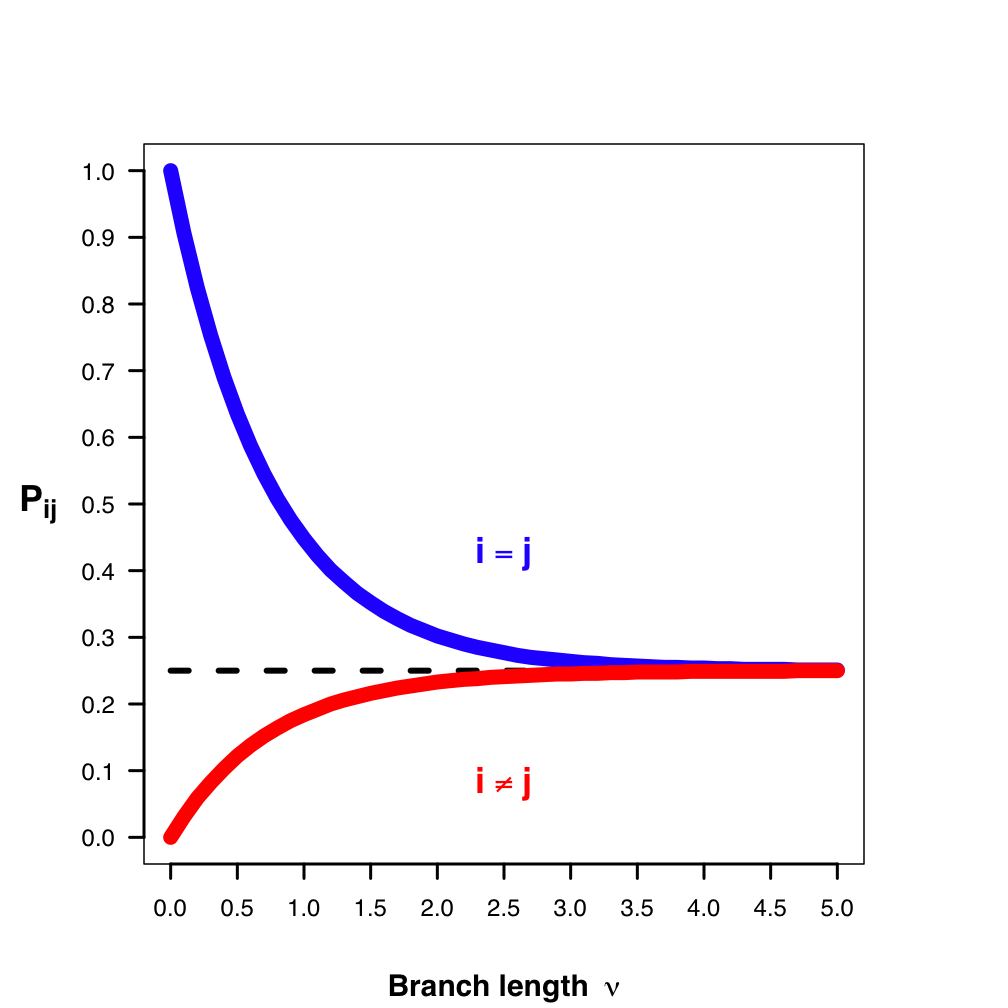 Jukes and Cantor (1969) model of DNA sequence evolution: probability of changing from initial state i to final state j as a function of the branch length (nu). Red curve: states i and j are different. Blue curve: initial and final states are the same.